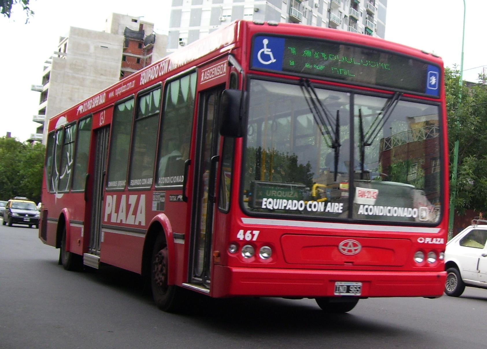 TATSA Puma D12 2nd generation bus (reg. INO 965, #467) in Buenos Aires, Argentina. Colectivo, line 140, Transportes Automotores PLAZA S.A.C.I. operator.